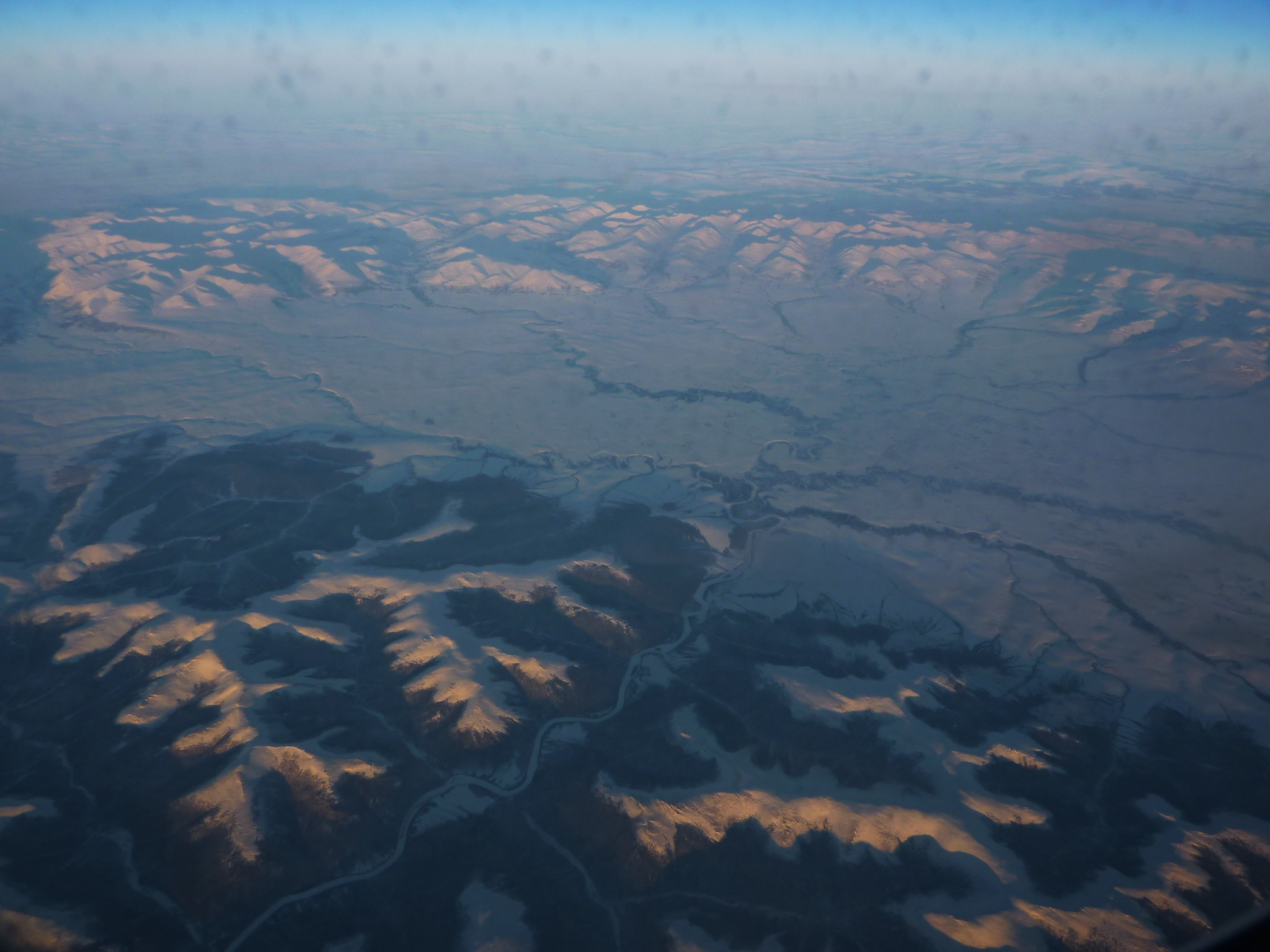 An aerial photo of a river basin about 60 miles ENE of Nome, AK. Looking north, toward the Bendeleben Mountains. Photo taken from an AA aircraft on a non-stop ORD-PVG flight